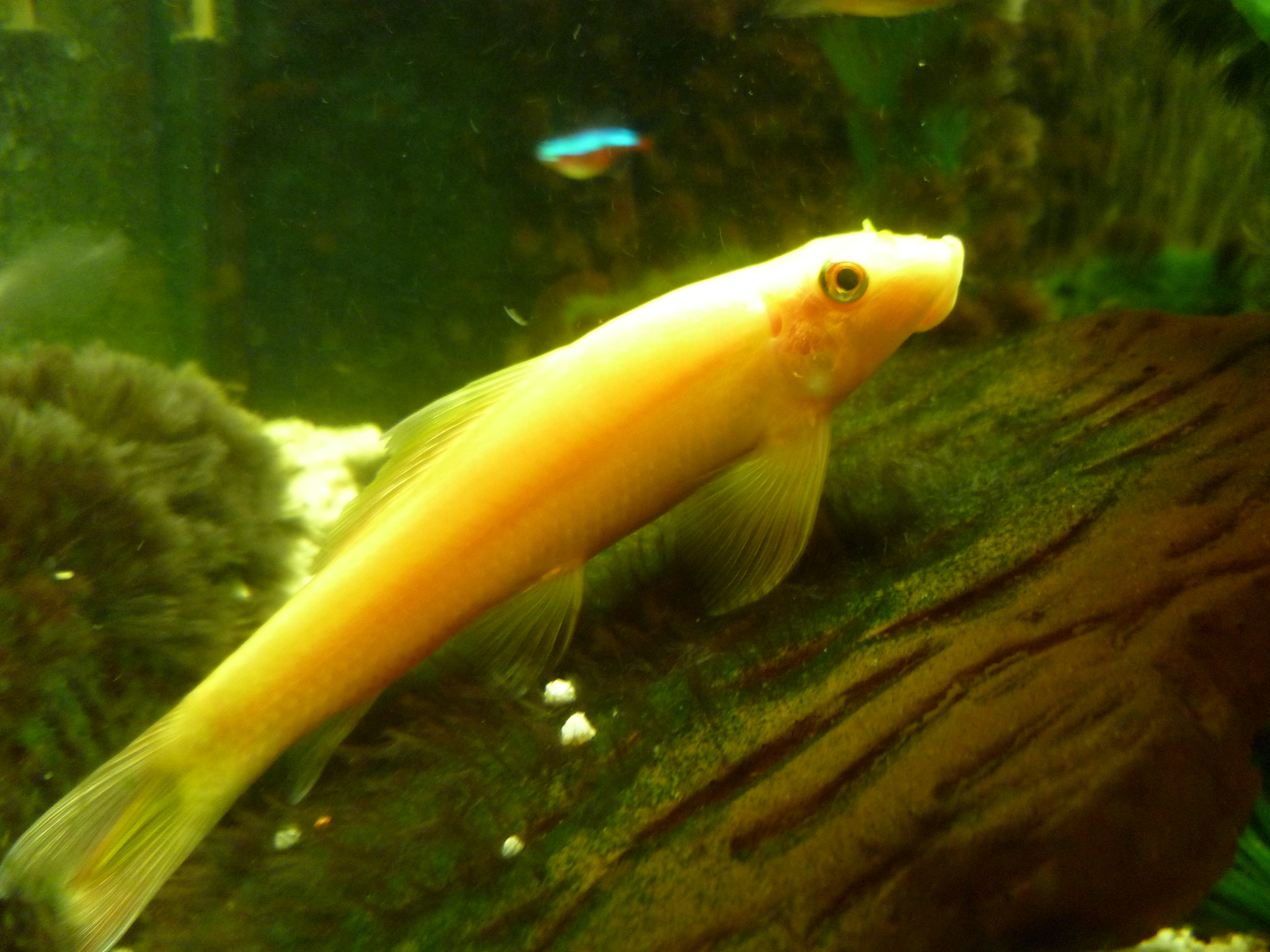 Golden sucking loach